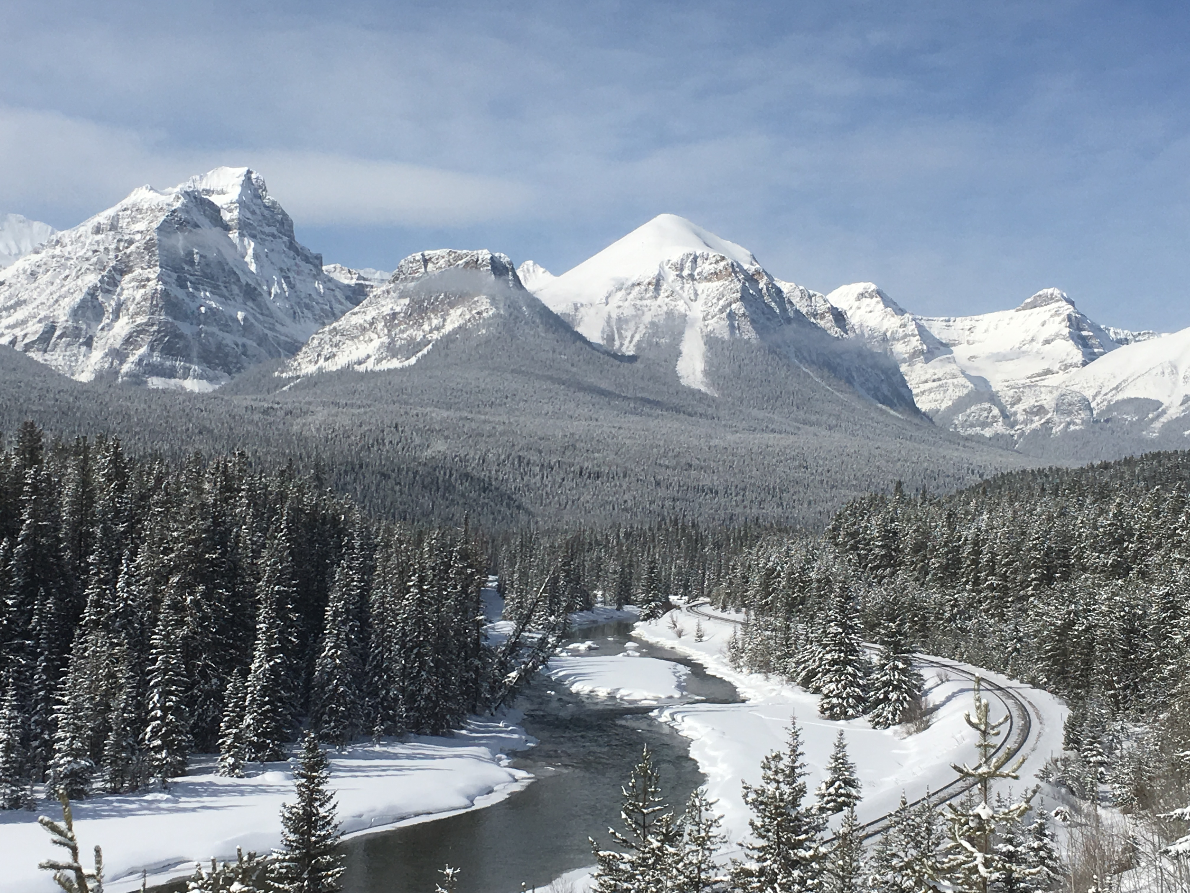 Bow River, Railway tracks & Mountains along the Bow Valley Parkway between Banff & Lake Louise